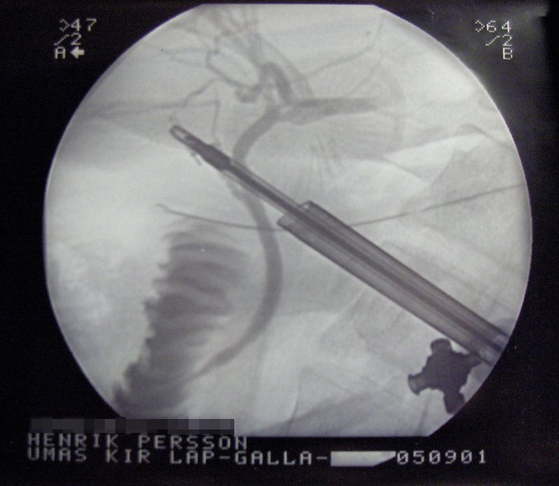 X-ray of organs during a laprasopic cholecystectomy. The picture shows the liver on top, the biliary tree within the liver, and the cystic duct going from the gall bladder to the common bile duct, which then goes down to duodenum.